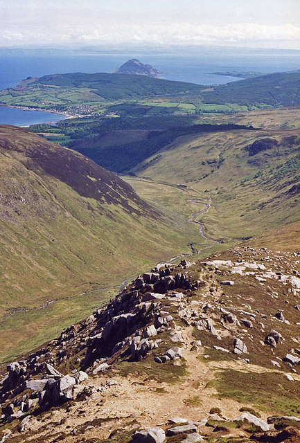 South ridge of Beinn a Chliabhain Glen Rosa, Brodick, Holy Isle and Ayrshire coast.